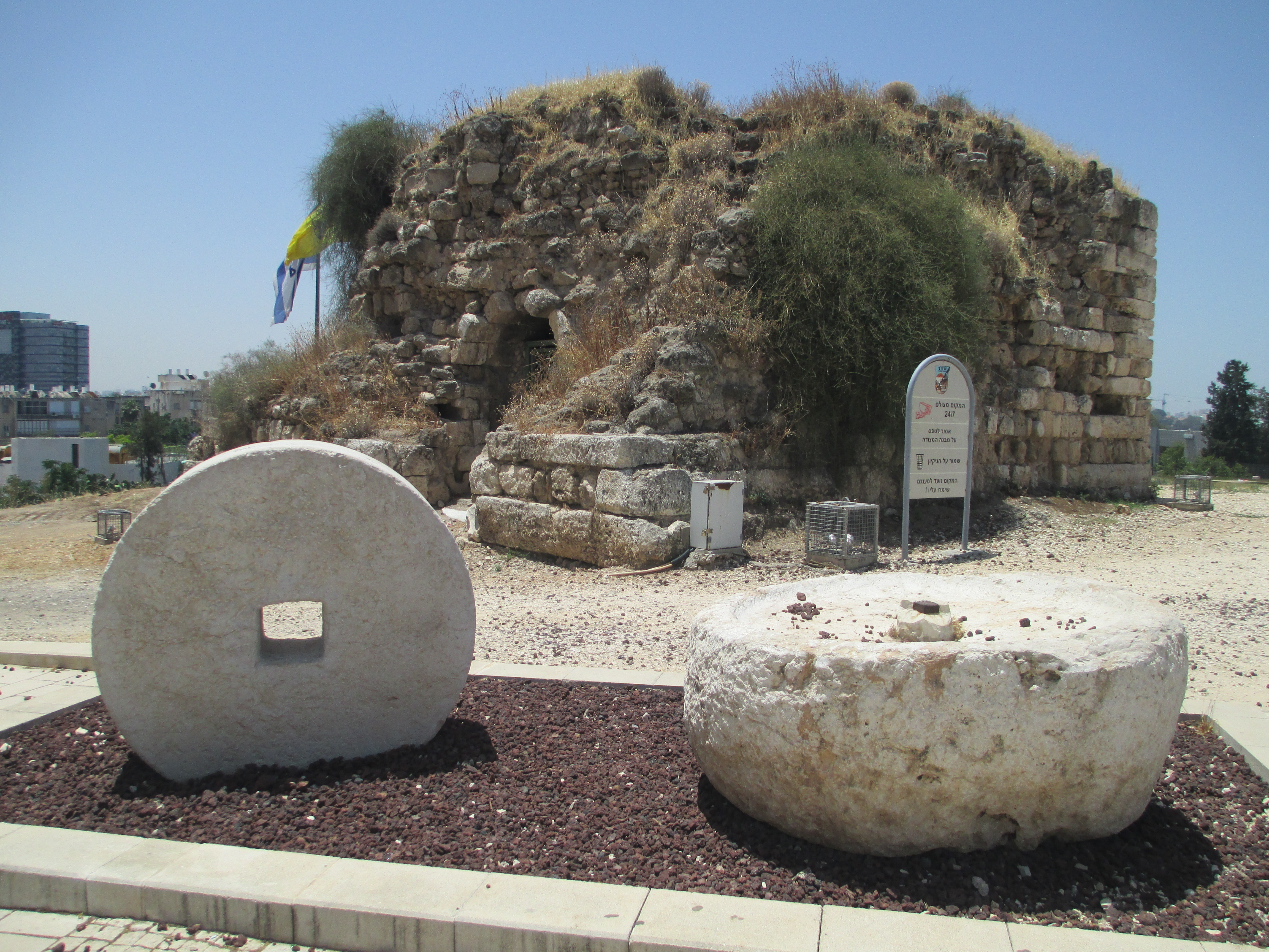 Crusader castel in Azor